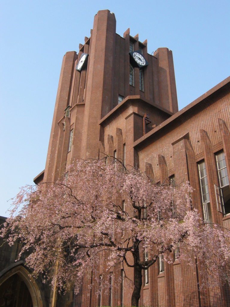 東京大學安田講堂 / photo by Hibaby